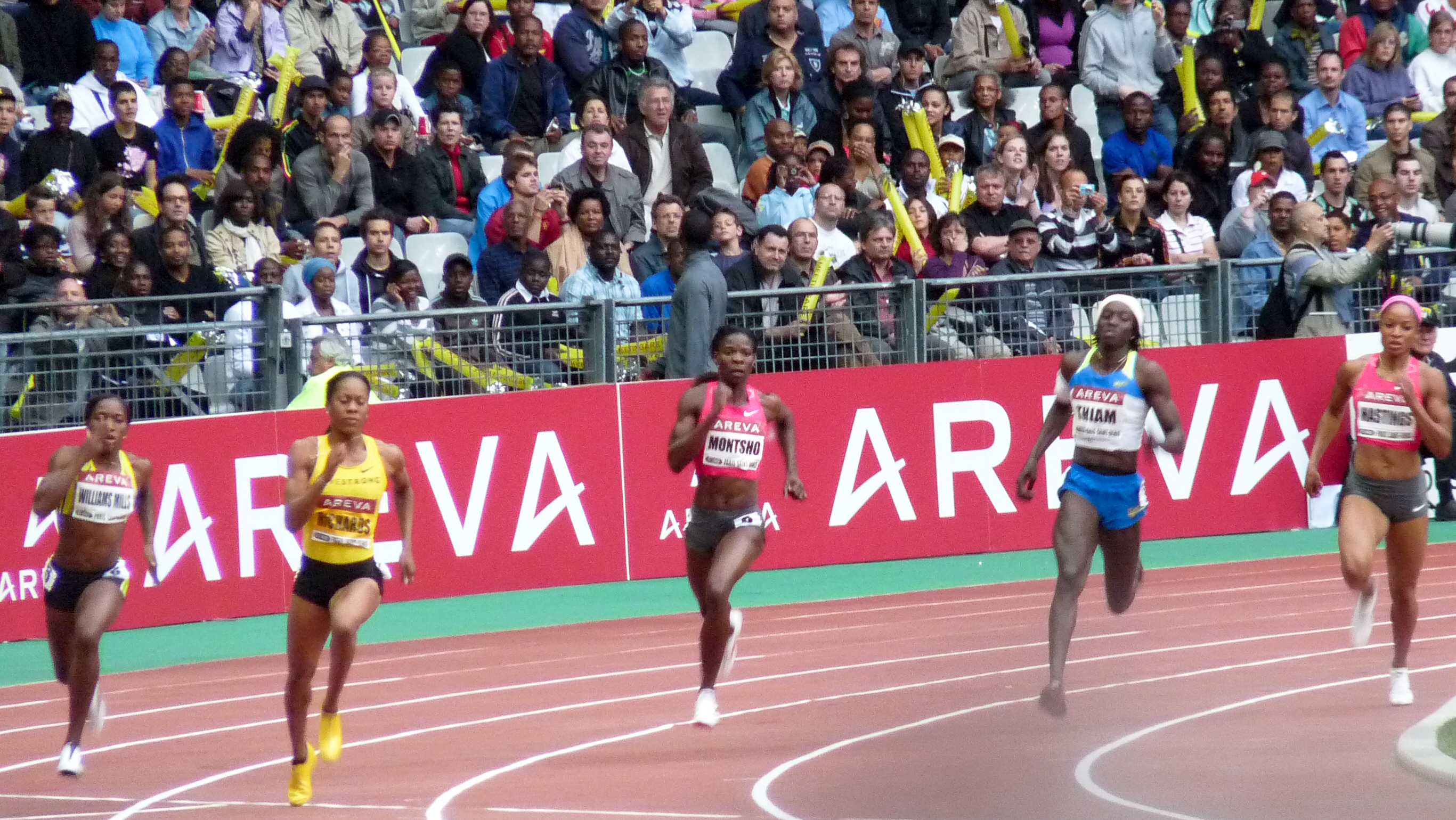 400 m féminin lors du Meeting Areva 2009. De gauche à droite : Novlene Williams (JAM), Sanya Richards (USA), Amantle Montsho (BOT), Amy Mbacke Thiam (SEN) et Natasha Hastings (USA).